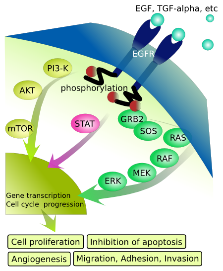 Epidermal growth factor receptor (EGFR) signaling pathway.